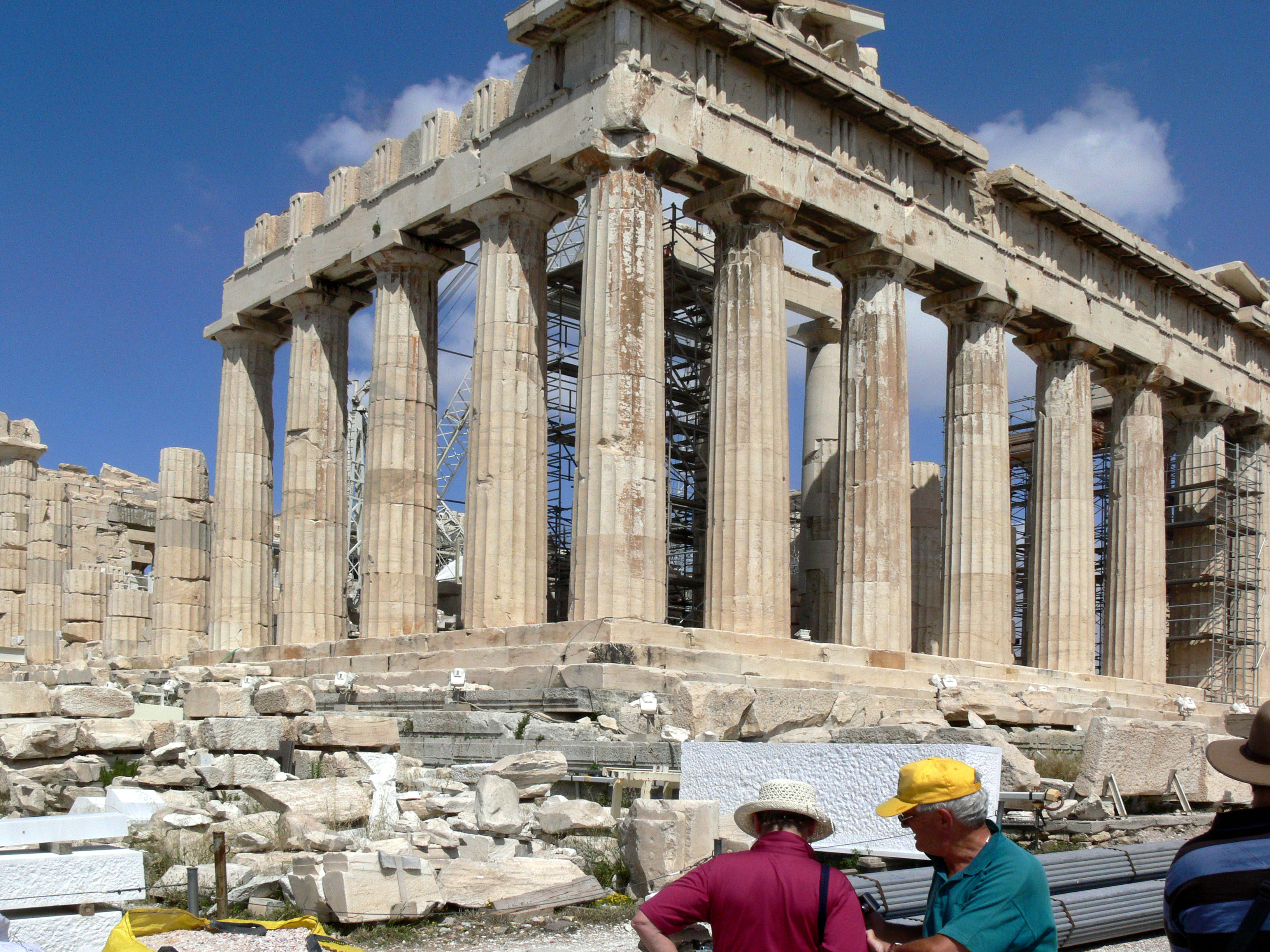 Parthenon